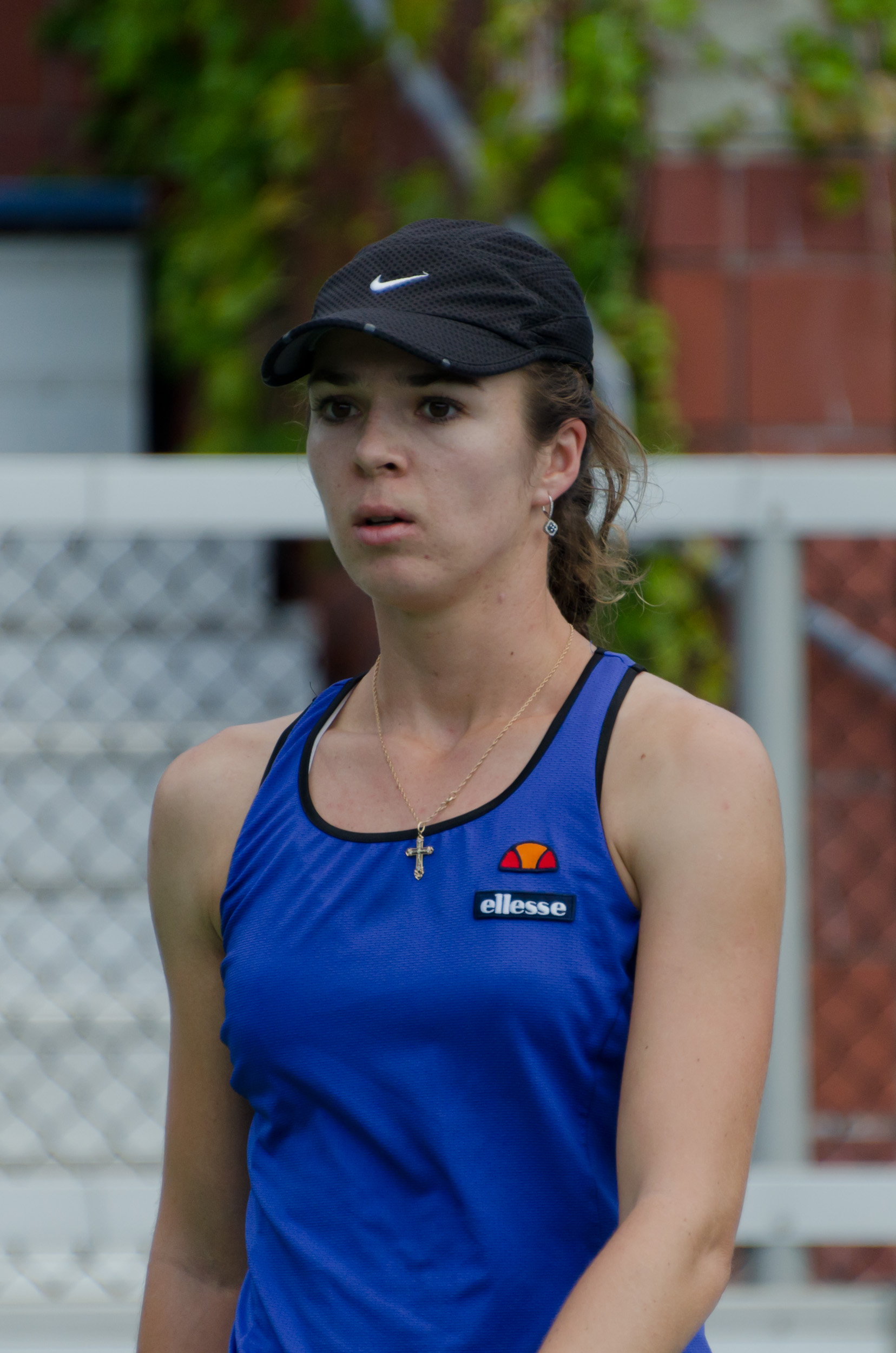 Galina Voskoboeva at the 2011 US Open Qualifying Tournament